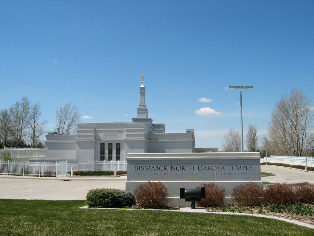 The Bismarck North Dakota Temple of The Church of Jesus Christ of Latter-day Saints with title plaque.